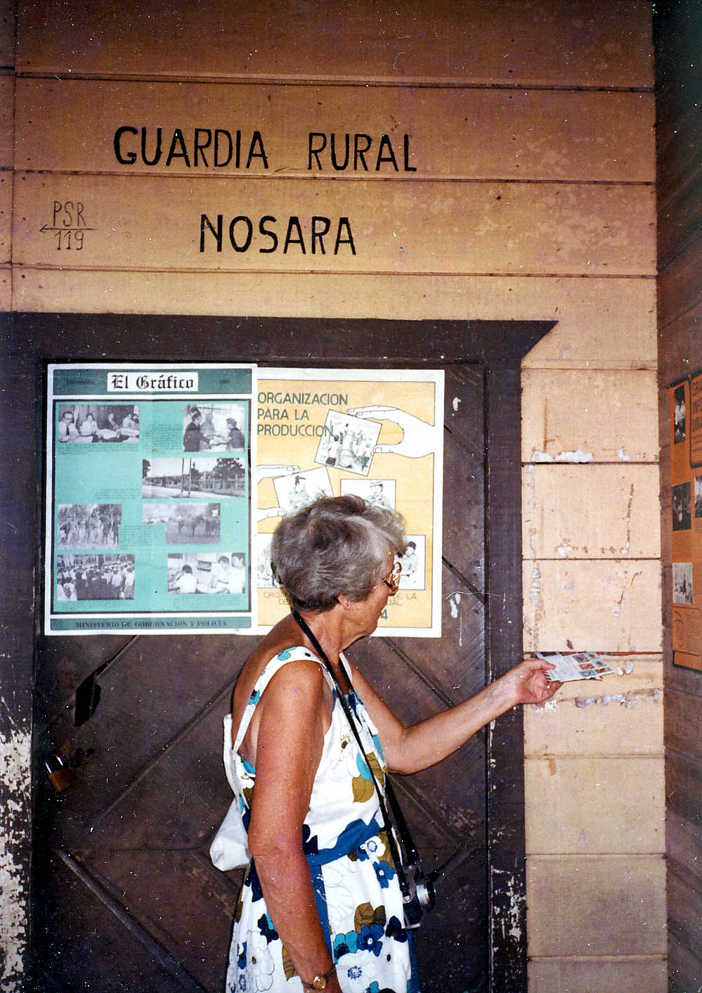 Sending mail at Nosara, Costa Rica, March 1984. This image was taken by father, Dr. Ted Hill in 1984 and I inherited it.